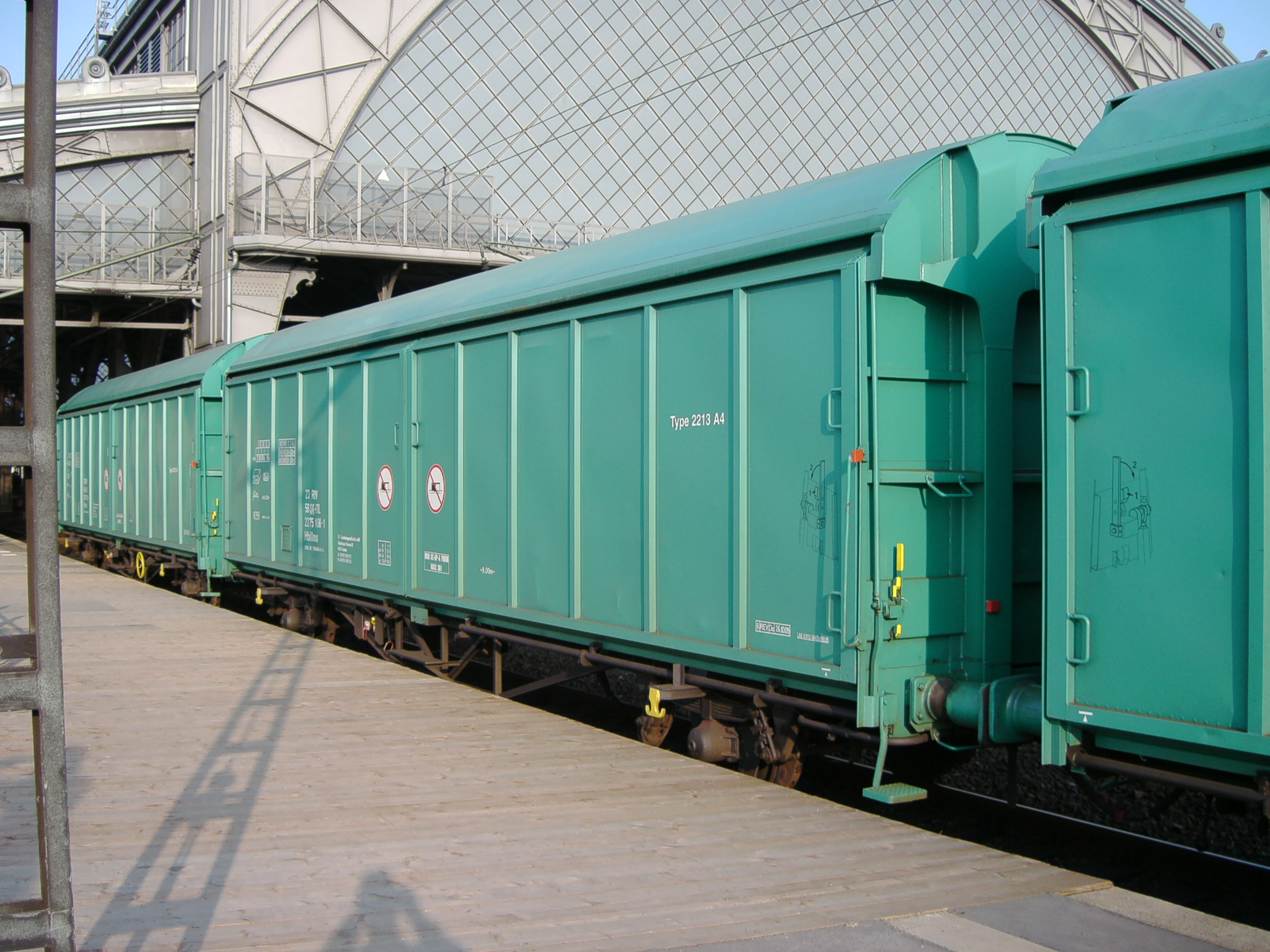 Sliding side wagon Hbillns of the ITL Eisenbahngesellschaft, working for the railway company, Cargo Slovakia.